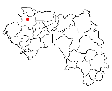 Gaoual, Guinea Location Map; created with the GIMP. Made by User:Acntx.